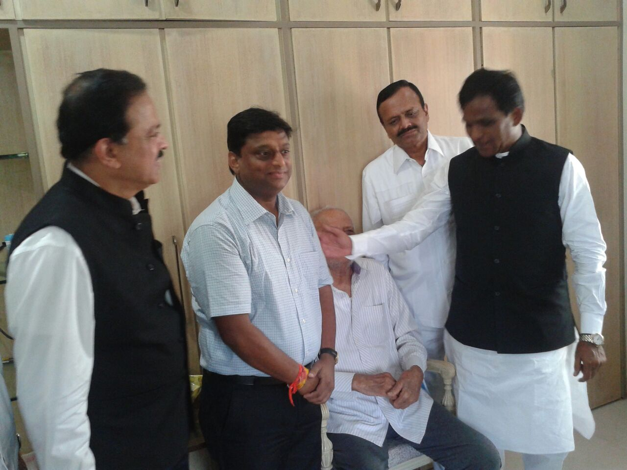 Dr Jitendra thakur and Raosaheb Danve and MP Dr Shubhash Bhamre